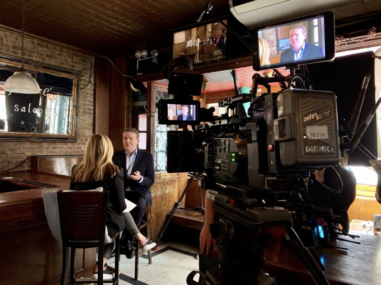 Tune in tonight to @FullFrontalSamB at 10:30 PM ET on @TBSNetwork. I sat down with @iamsambee at a bar in NYC to talk about @realDonaldTrump’s reckless foreign policy (and buying things off eBay).